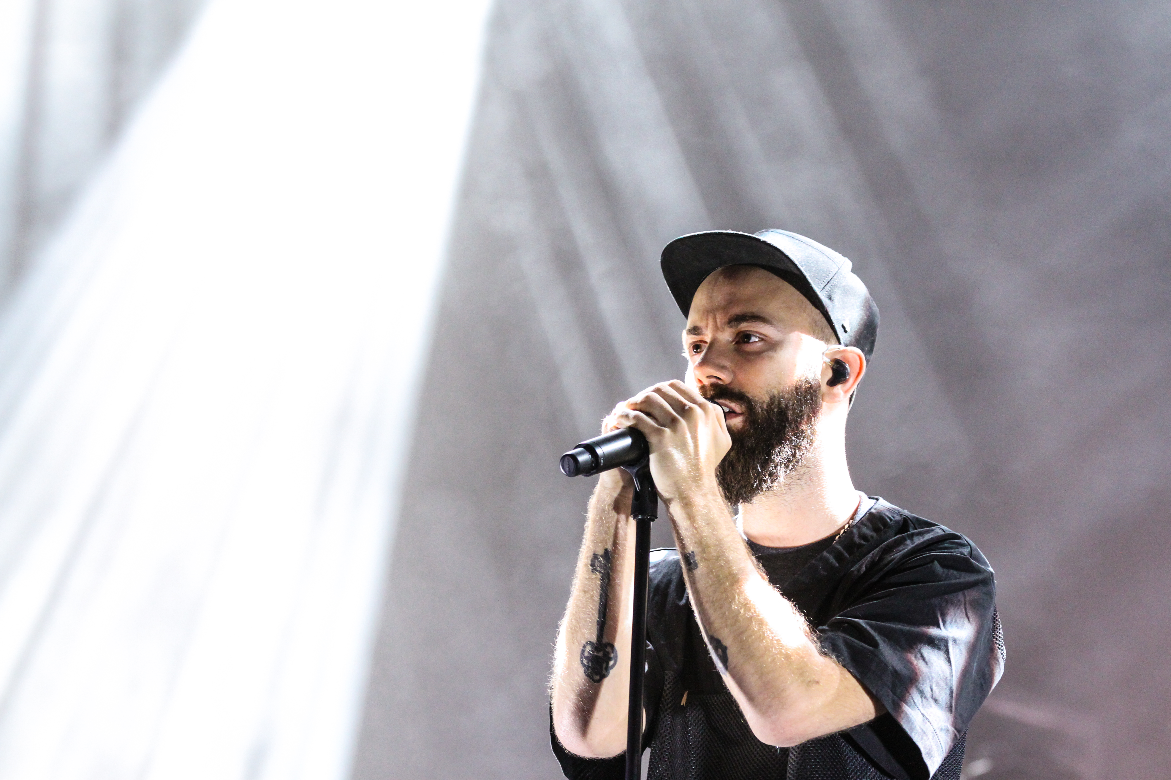 Woodkid performing at Melt! Festival 2013